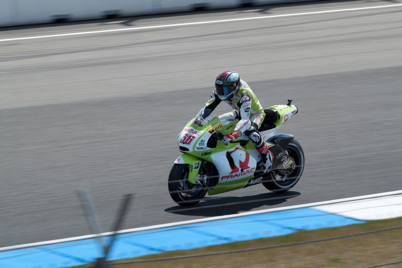 Mika Kallio, riding his Pramac Ducati at the 2010 Dutch TT in Assen.